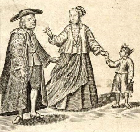 Mestizos, detail from Carta Hydrographica y Chorographica de las Yslas Filipinas (1734).